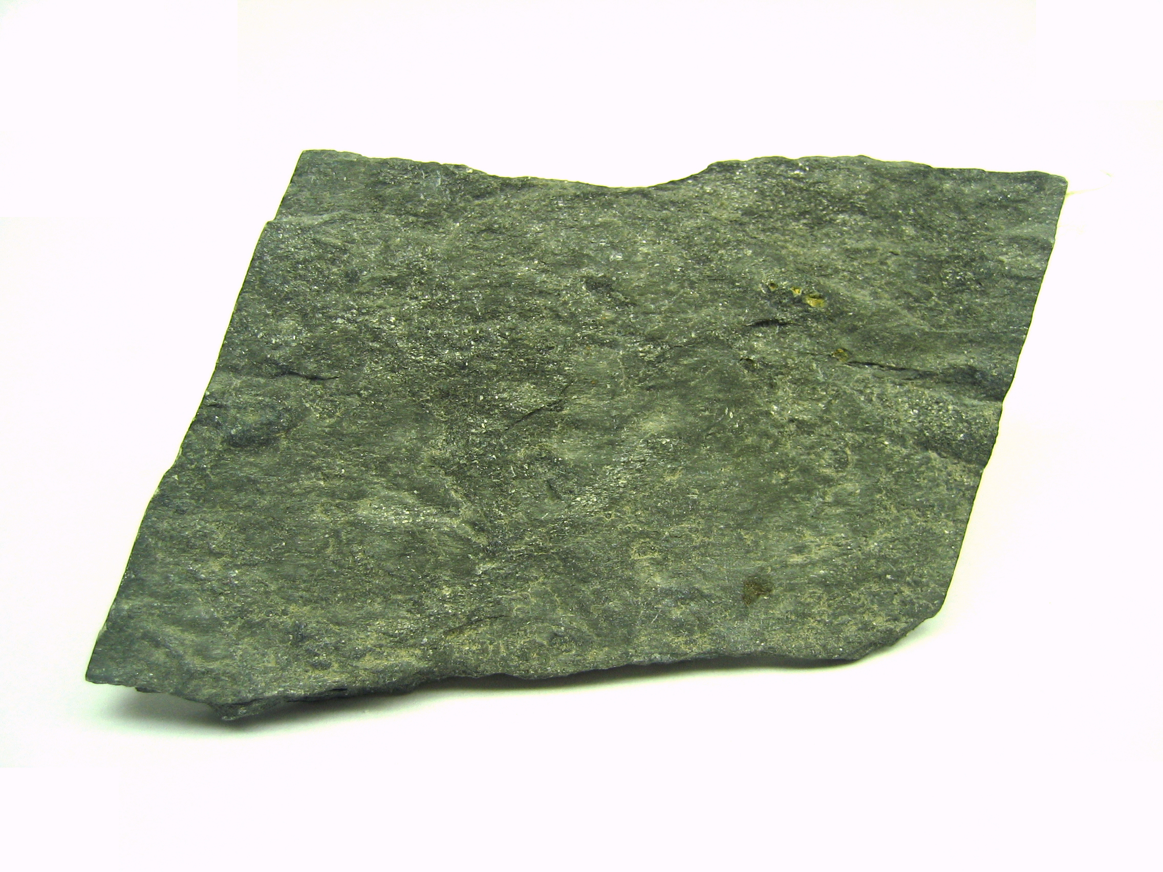 A macro of a piece of slate. It is about 2 ½ inches (6 cm) long by 1 ½ (4 cm) high.